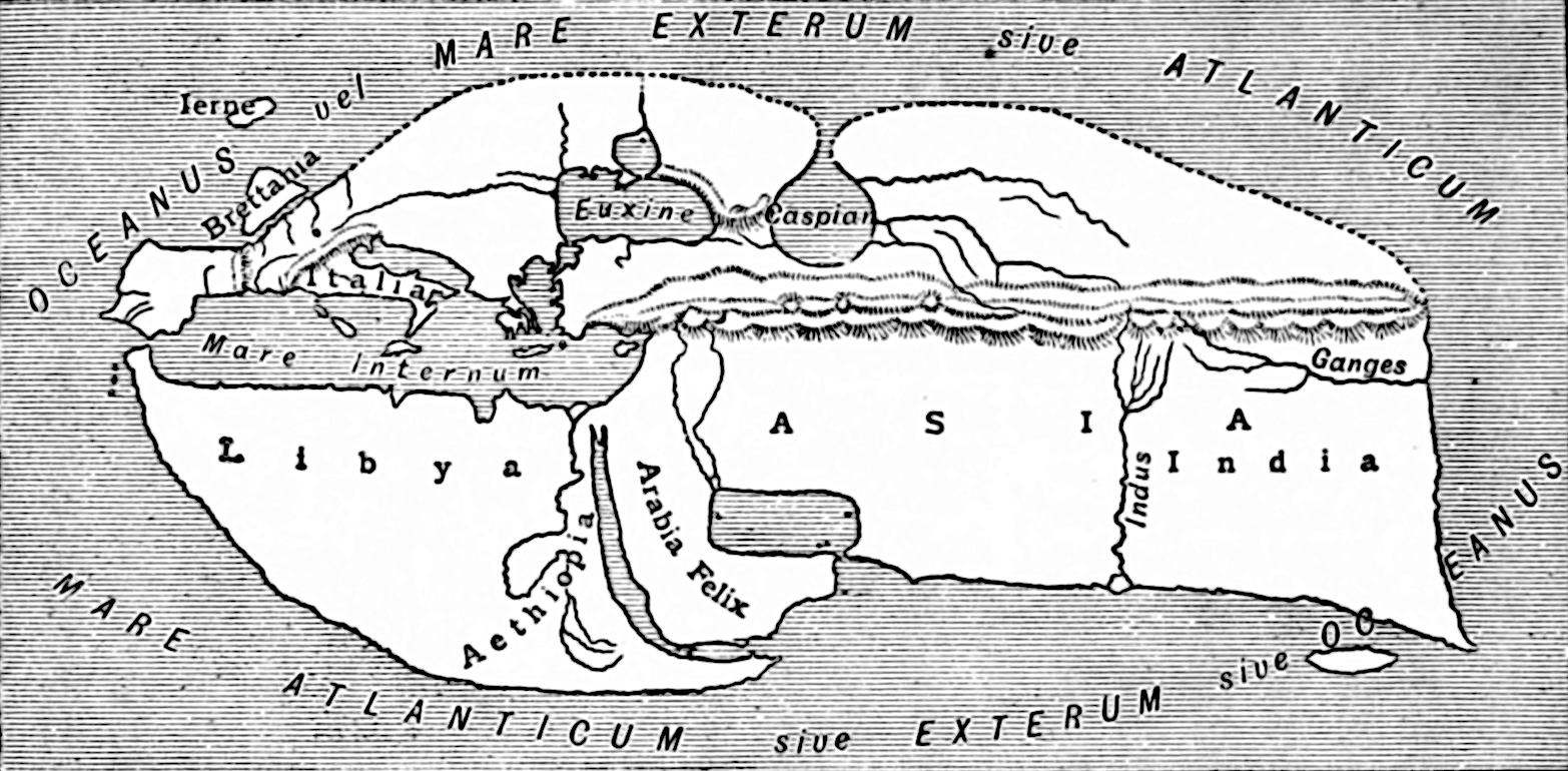 An illustration from the Encyclopaedia Biblica, a 1903 publication which is now in the public domain. Map 1 for article "Geography". Map of the world, by Strabo